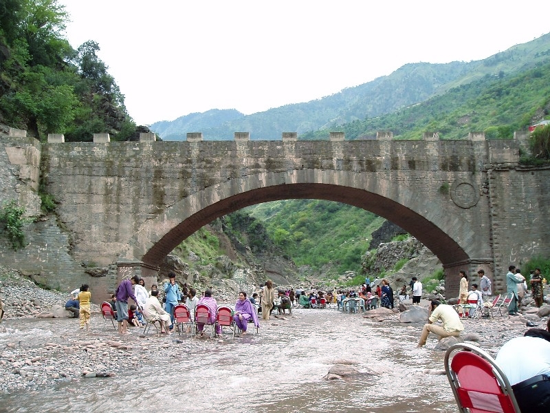 Food Place on a Water Stream Joining the Jhelum River Near Kohala Bridge, is a Popular Tourist Attraction. This is a photo of a monument in Pakistan identified as the AJK-20